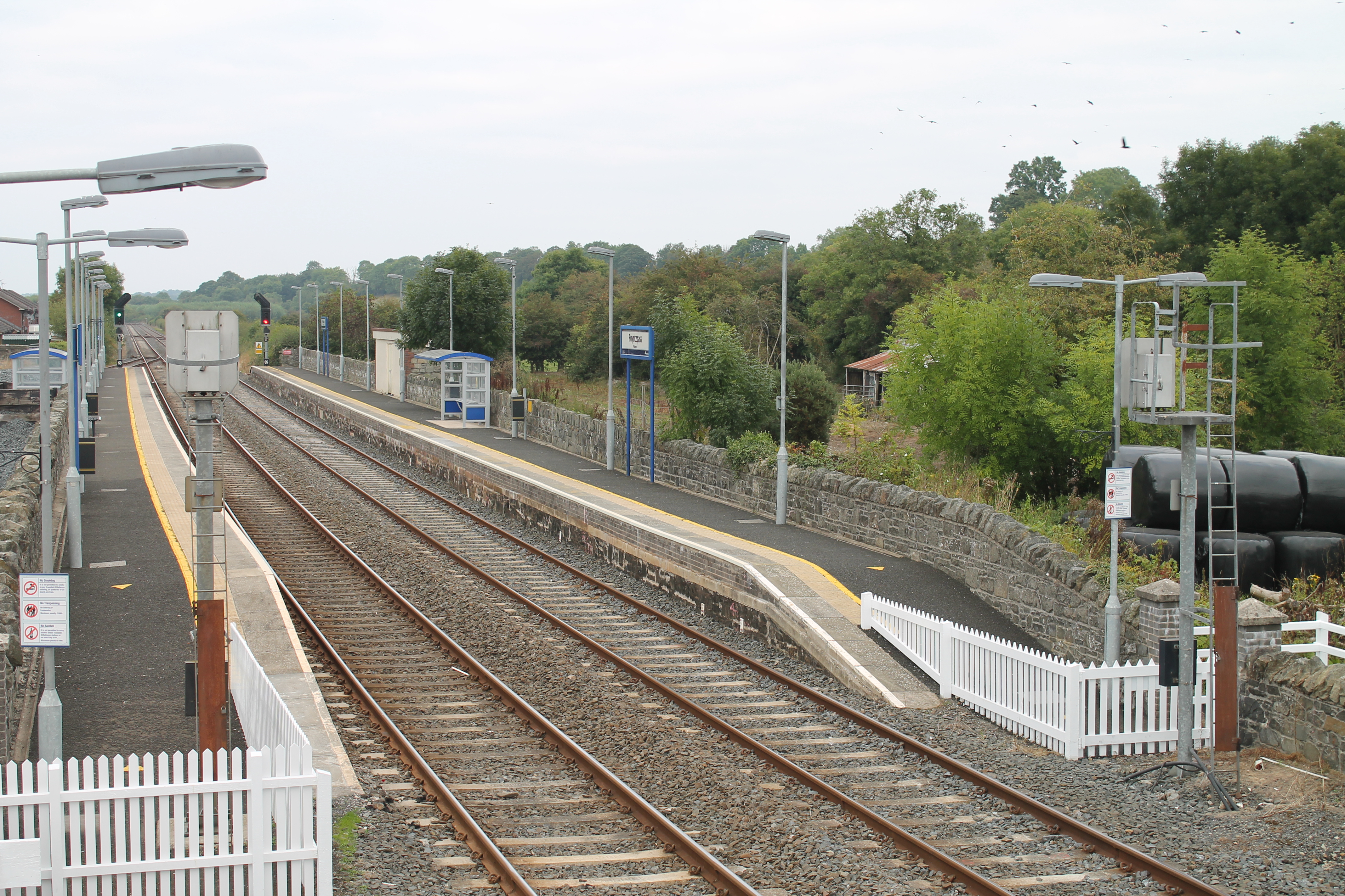 Poyntzpass railway station. Sep 2014.